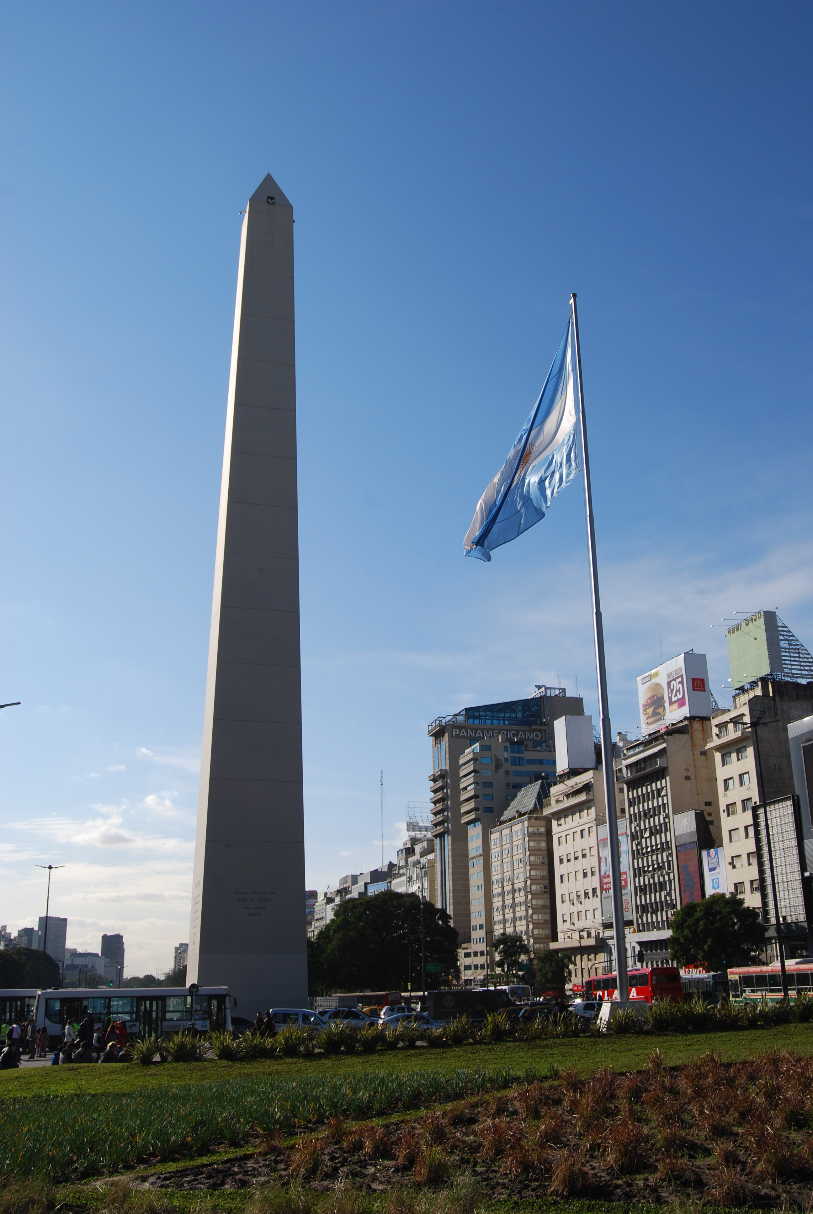 Obelisk of Buenos Aires an Hotel Panamericanto, Place of the 99th World Esperanto Congress, Argentine